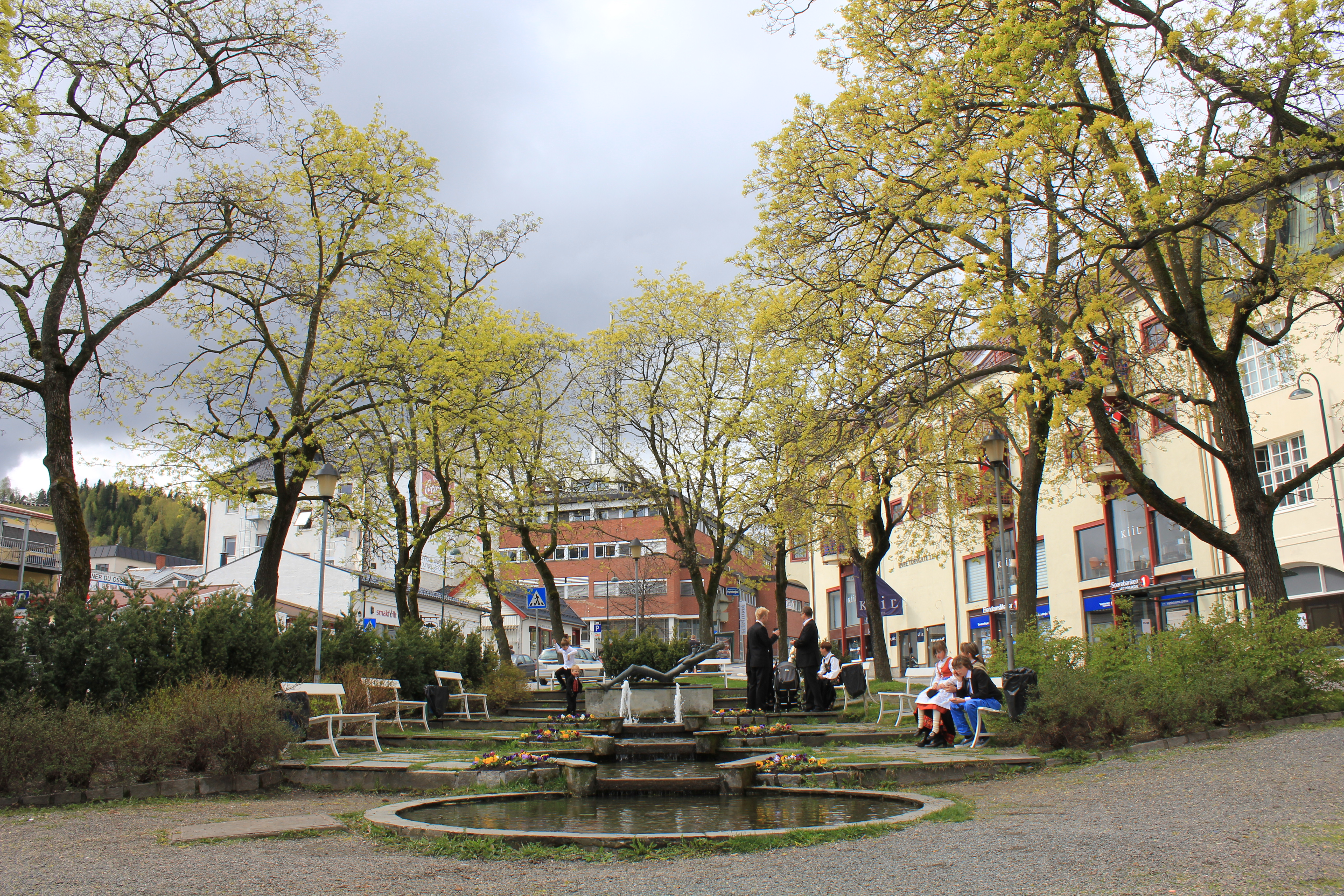 Panparken på Gjøvik. The small Pan Park in central Gjøvik, a small town in Oppland county, Norway.